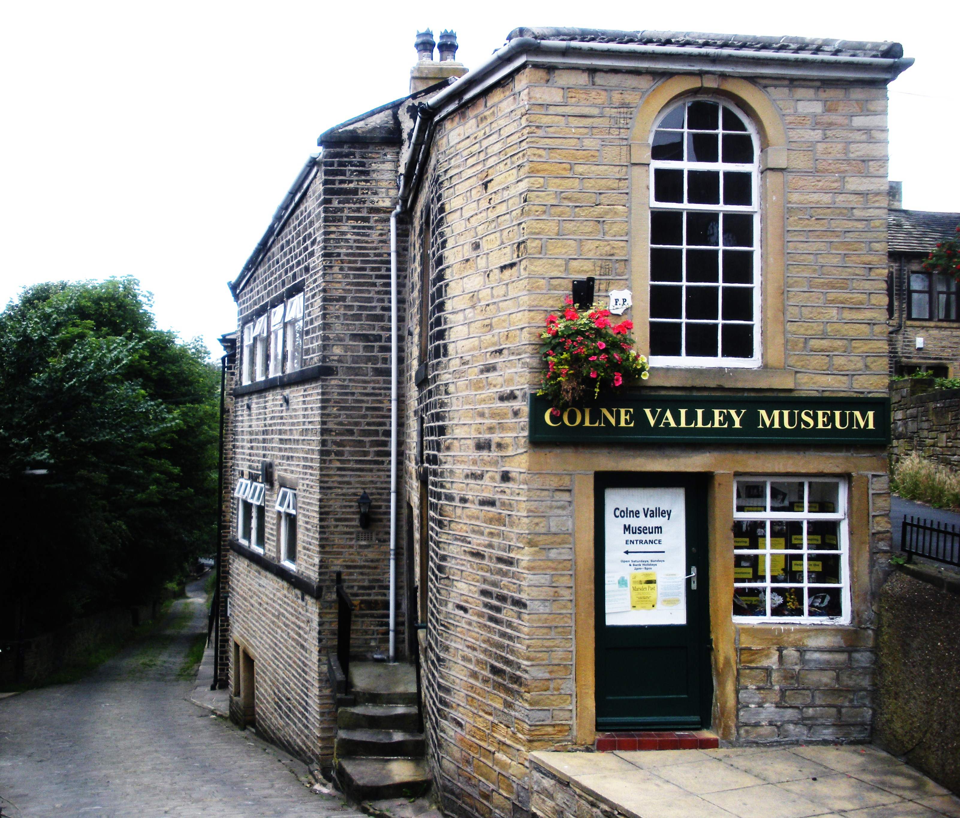 View of the Colne Valley Museum, Golcar, Huddersfield, in West Yorkshire, England